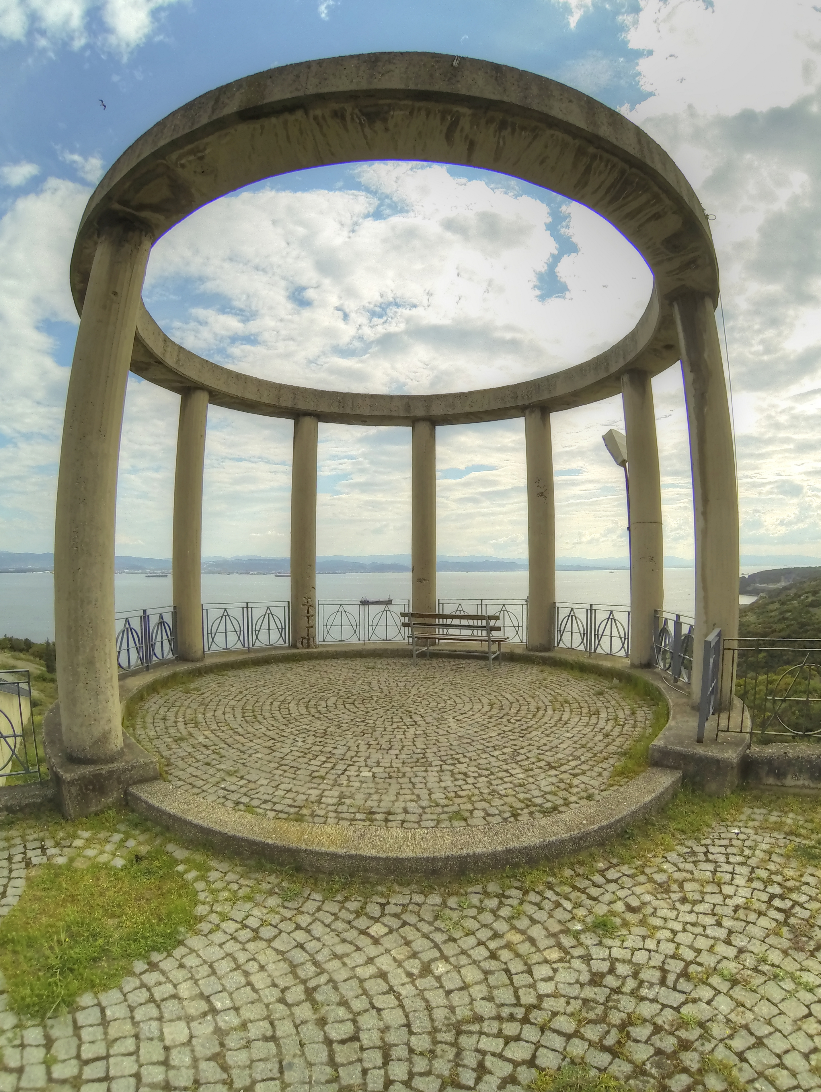 TEVİTÖL, Türk Eğitim Vakfı İnanç Türkeş Özel Lisesi is an independent private co-educational boarding school in Kocaeli Province for the gifted and talented in Turkey. DCIM\117GOPRO